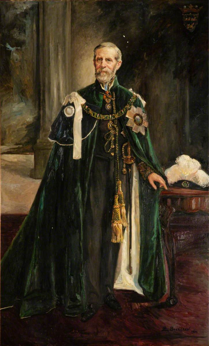 John Hamilton-Gordon, 1st Marquess of Aberdeen and Temair.